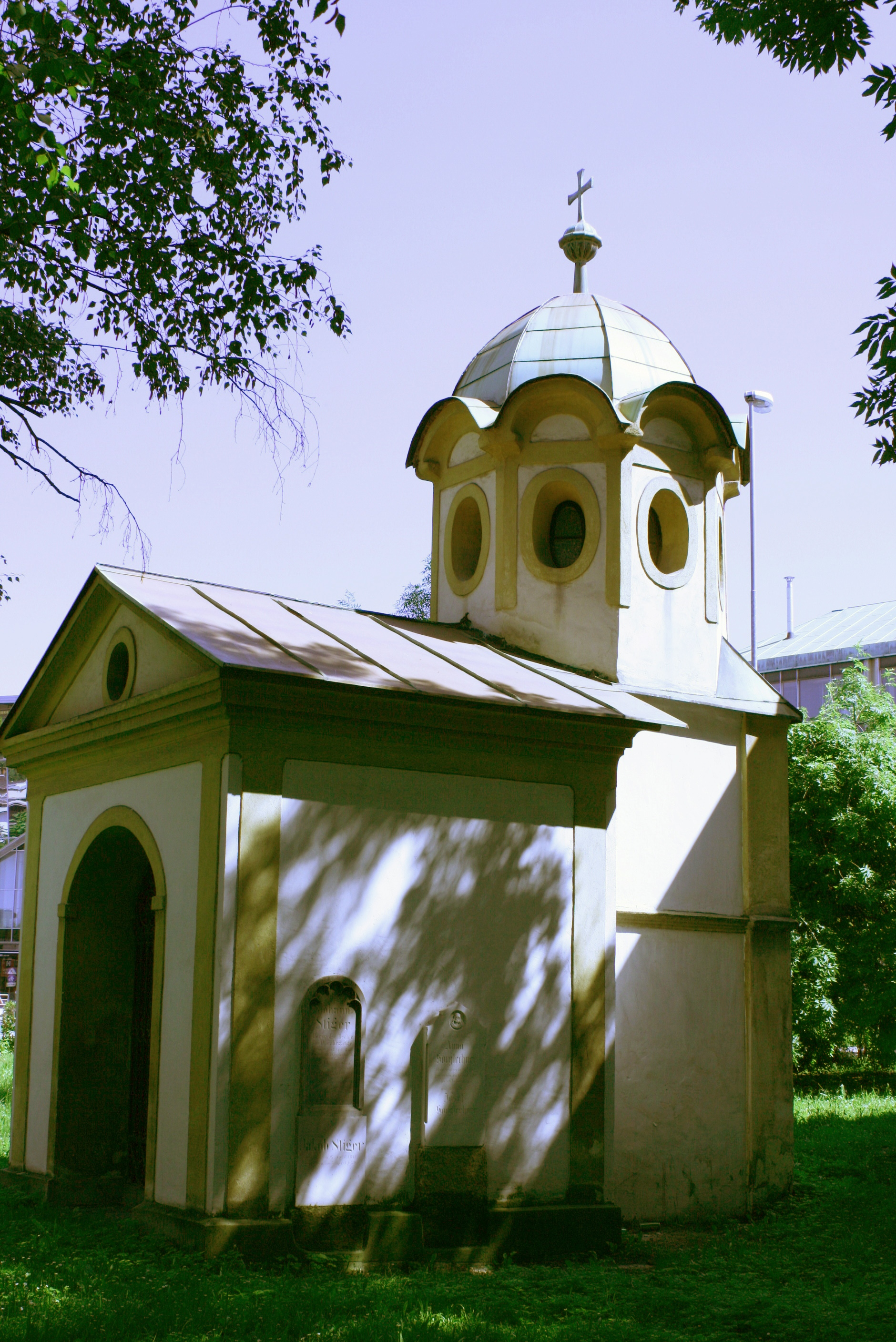 St. Maximilian's Church, Celje.